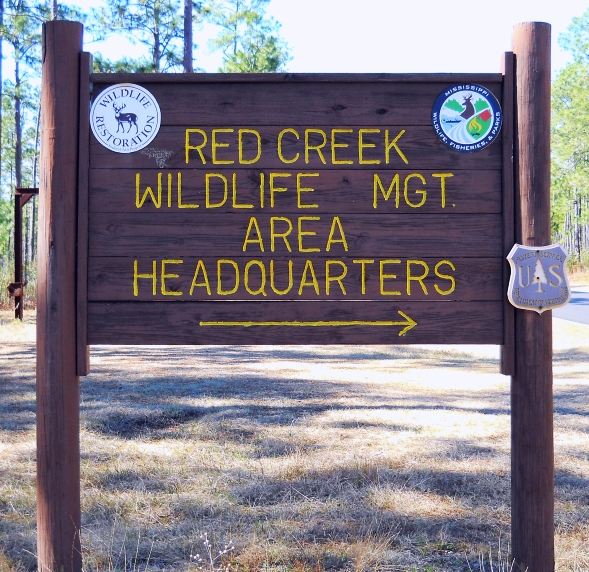 Red Creek Wildlife Management Area Sign at Headquarters located in Stone County, Mississippi, USA.